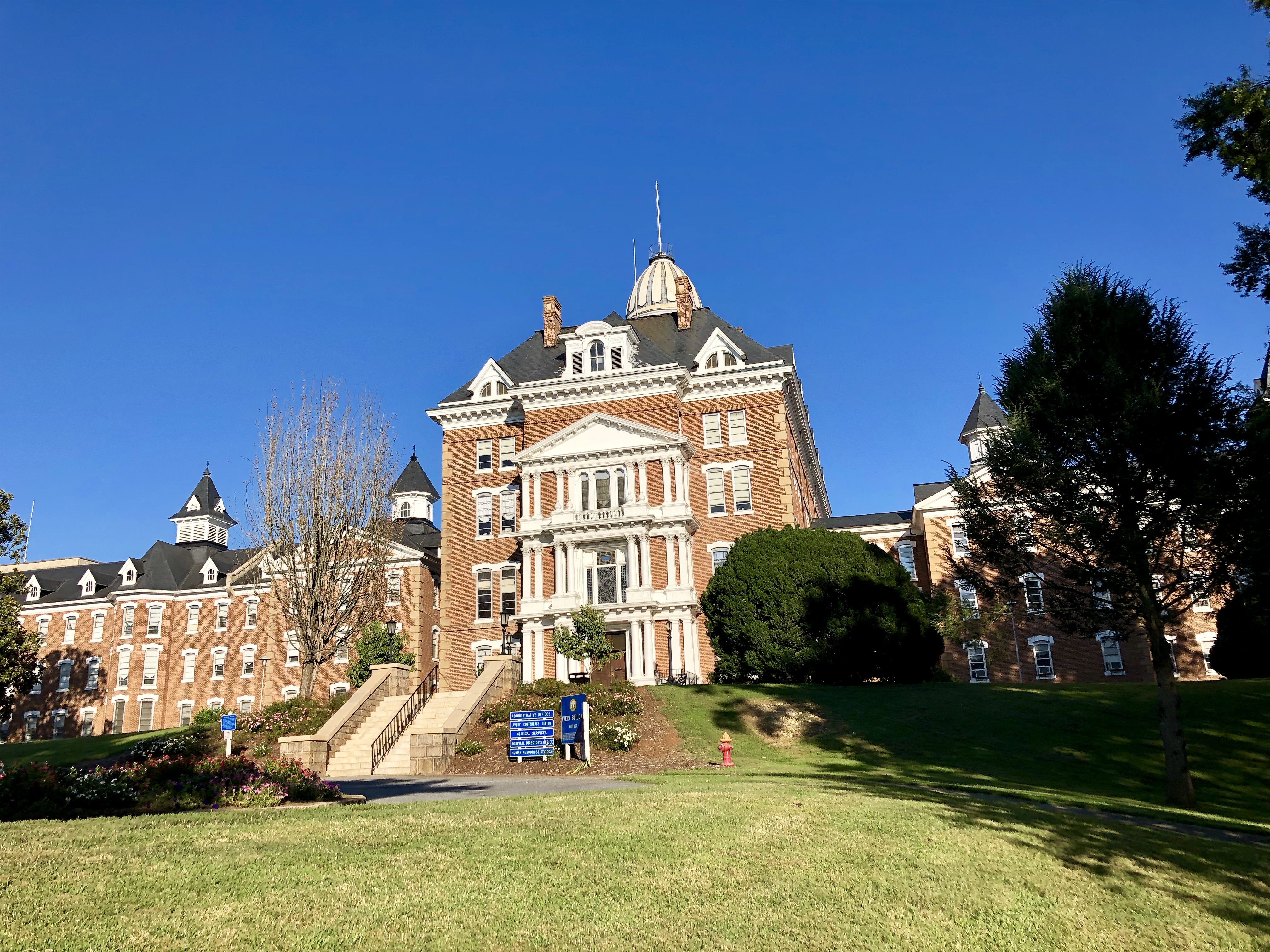 This is the main building of the Broughton State Hospital (Western North Carolina Insane Asylum) in Morganton, North Carolina. It was constructed starting in 1883, and is slated to close as a new facility is under constructed adjacent to the old complex. The main building was listed on the National Register of Historic Places in 1977, with an additional listing for the greater hospital complex being added in 1987.